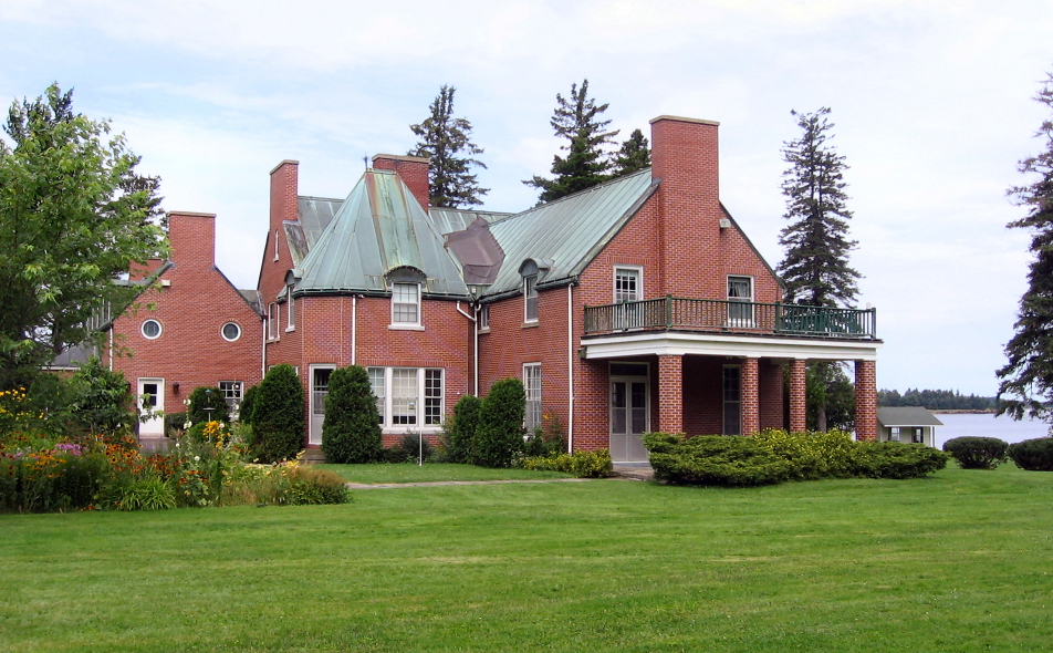 Photographed by permission on the grounds of the former home of J. W. Y. Smith, called Younglands, Summer 2006.